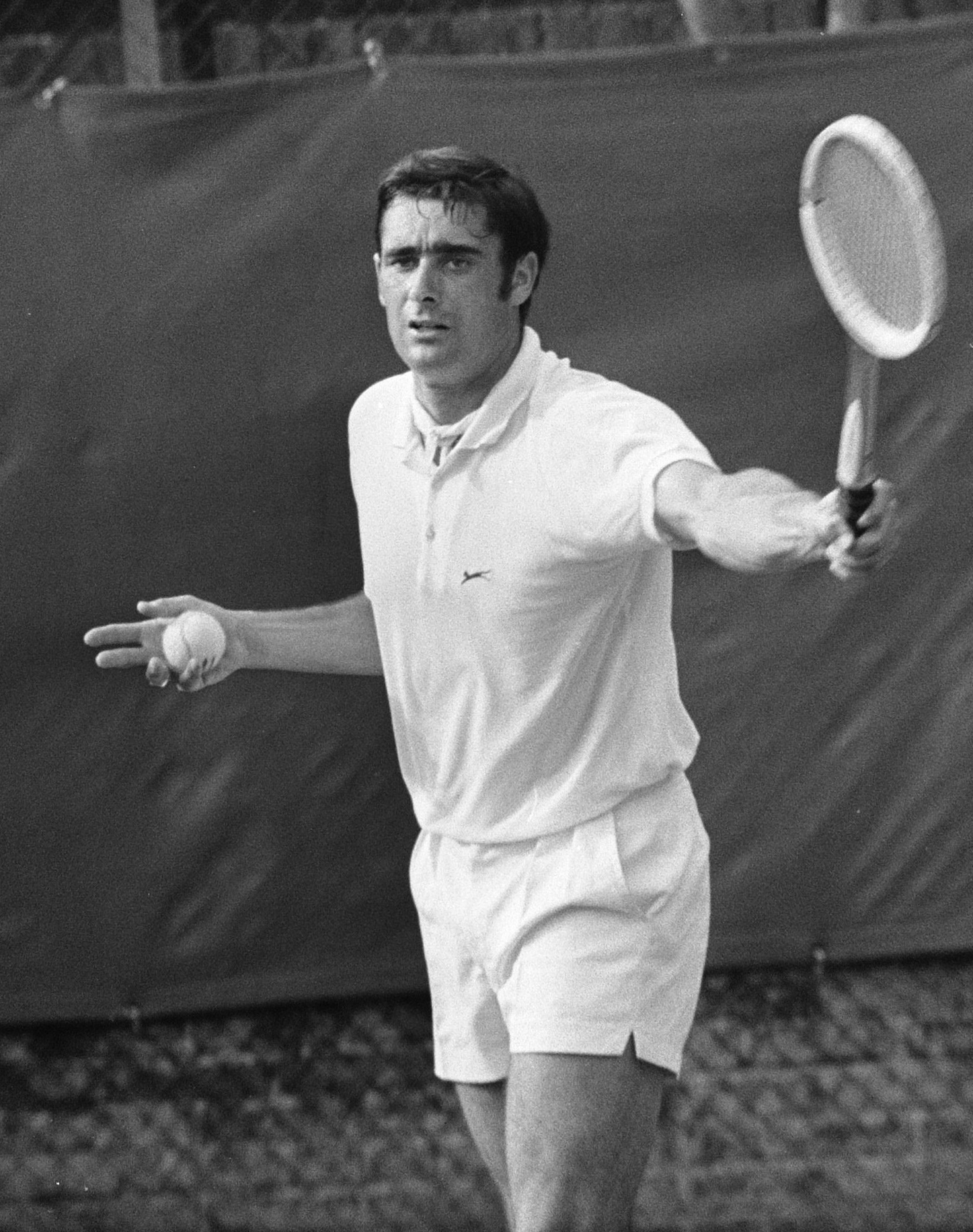 English tennis player Roger Taylor at the 1969 Dutch Open in Hilversum.